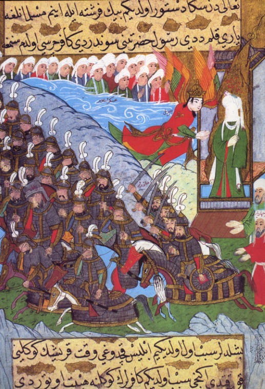 Siyer-I Nebi or Life of the Prophet